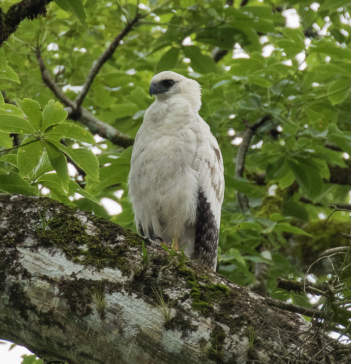 Crested Eagle immature - Darien - Panama CD5A0992